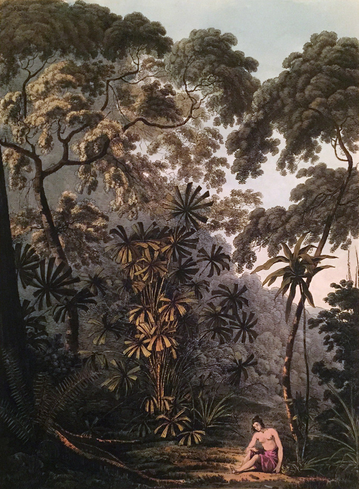 Plate XVI. The Fan Palm in the Island of CracatoaIn "A Fan Palm" Webber heralds a new approach to landscape, closing the background and renouncing open vistas to present the viewer with a close-up of a kaleidoscopic array of stems, leaves, and branches. While he includes a young native woman, this seems almost to serve as merely pictorial embellishment or to stress the grand scale of the lush surroundings. In January 1780 the expeditions left for home, crossing the Indian Ocean, calling at Cape Town (April-May) and arriving back in Stromness, Orkney, in August but not returning to London until October 1780.